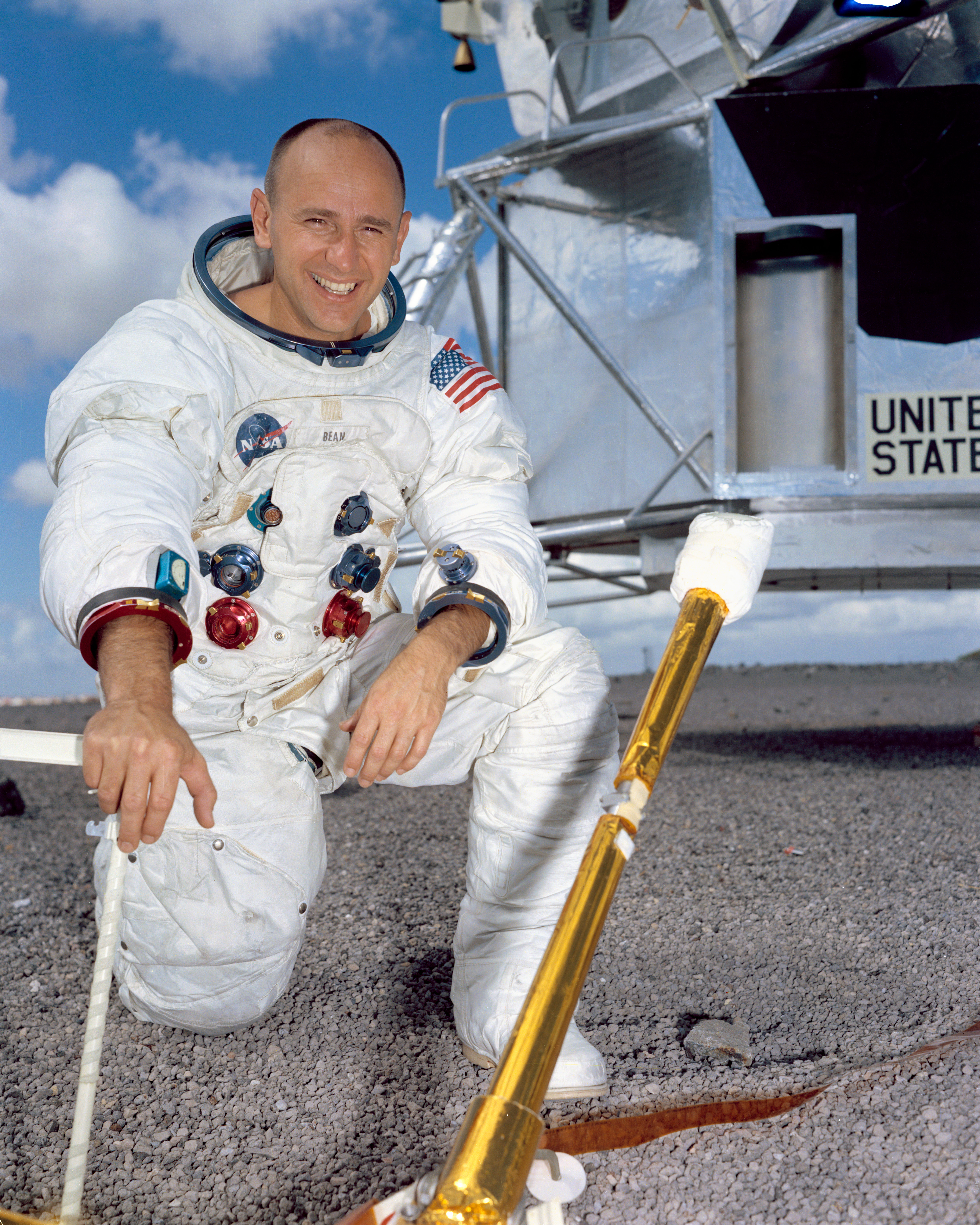 Portrait of Astronaut Alan L. Bean, Prime Crew Lunar Module Pilot of the Apollo 12 Lunar Landing Mission, in his space suit minus the helmet. He is standing outside beside a mock-up of the Lunar Lander.